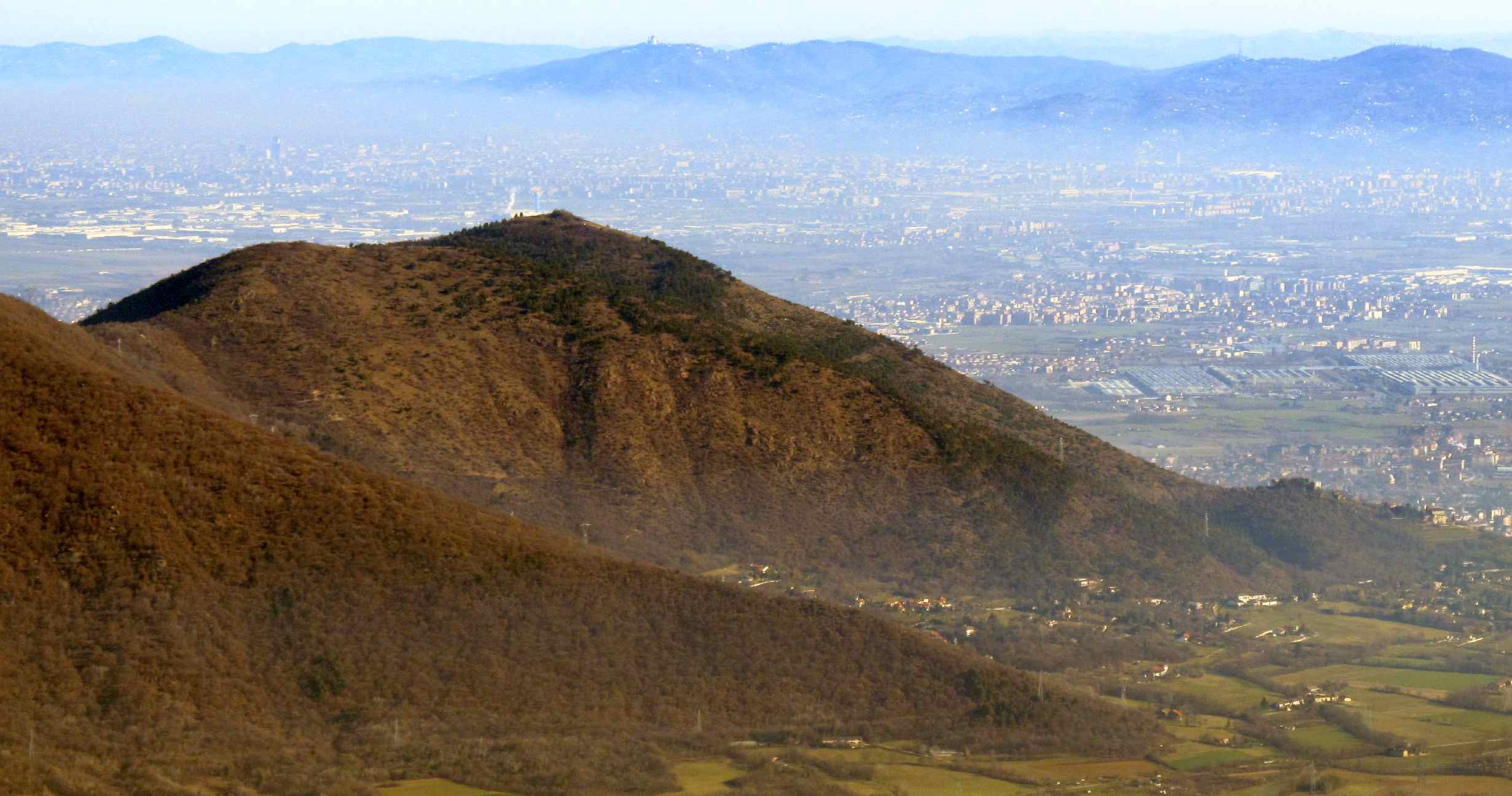 Mount San GIorgio (Cottian Alps, TO, Italy) seen from Monte Brunello; in the background Turin's metropolitan area and Superga